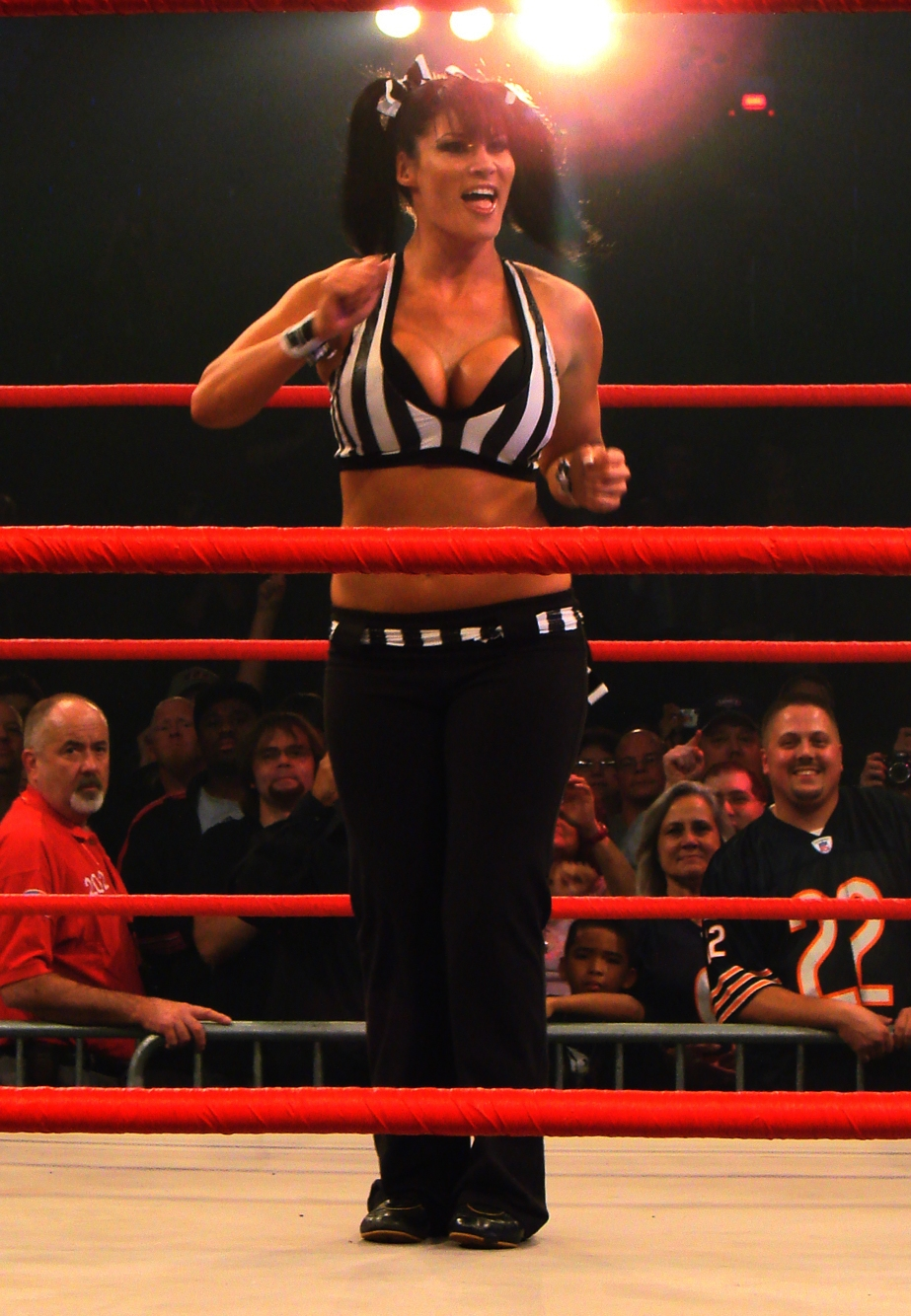 Traci Brooks at TNA Bound for Glory IV. Sears Centre; Hoffman Estates, Illinois; Taken by myself, rotated, cropped, and brightened.